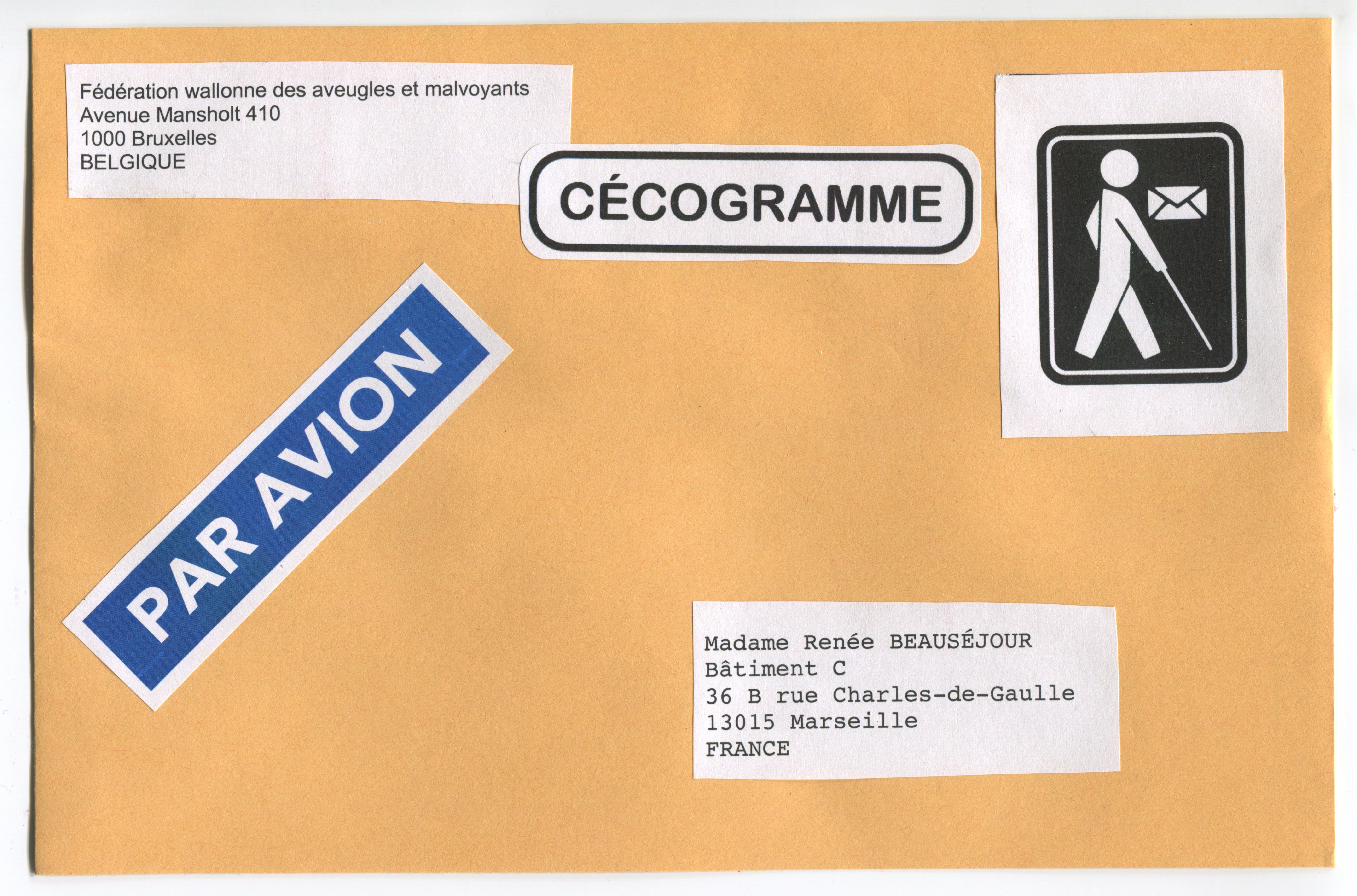 Upper-left corner: sender address Top centre: mention of "cécogramme" (cecogram) Upper-right corner: international cecogram label Left: mention of "par avion" (airmail) Lower-right corner: recipient address